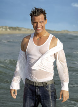 Antonio Sabato Jr. photographed by Jerry Avenaim